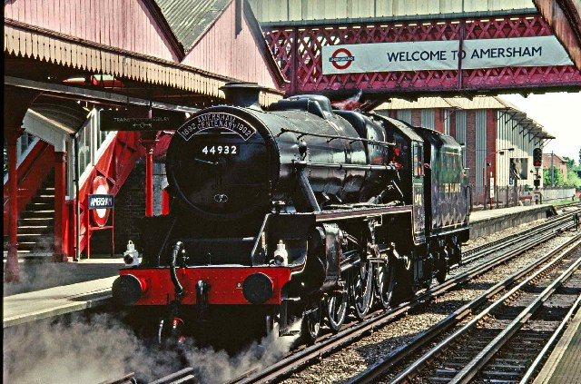 Steam Train at Amersham Station